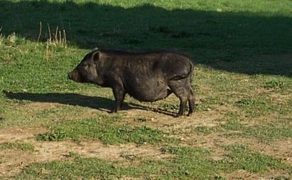 Pot Belly Pig Sow